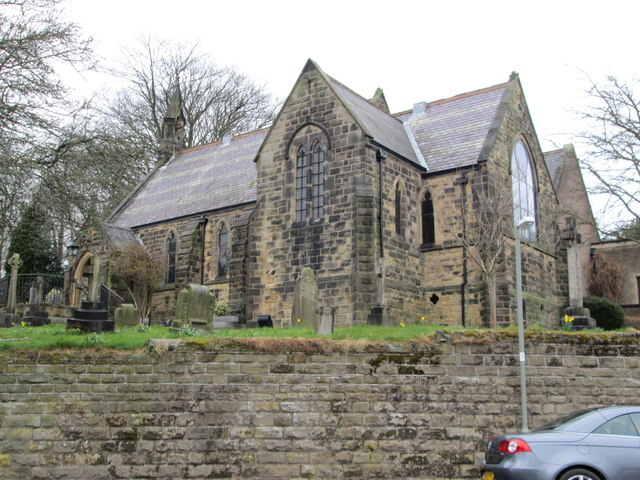 St John's Church - Burley Lane, It was enlarged by architect William Swinden Barber in 1884-1885.